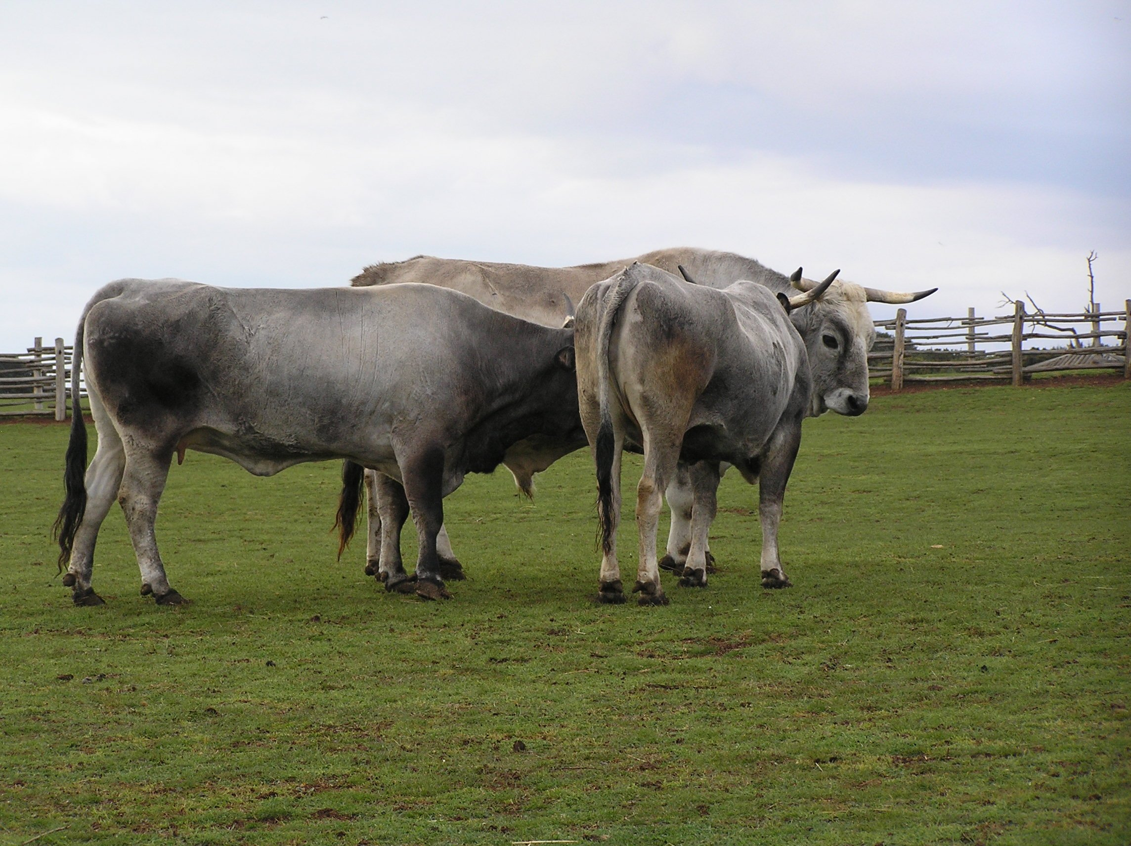 Istrian bovine, the Boškarin